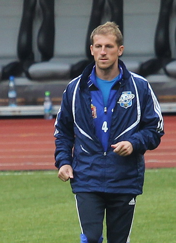 Roman Vorobiev